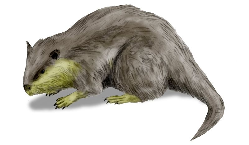 Crop of file in filename